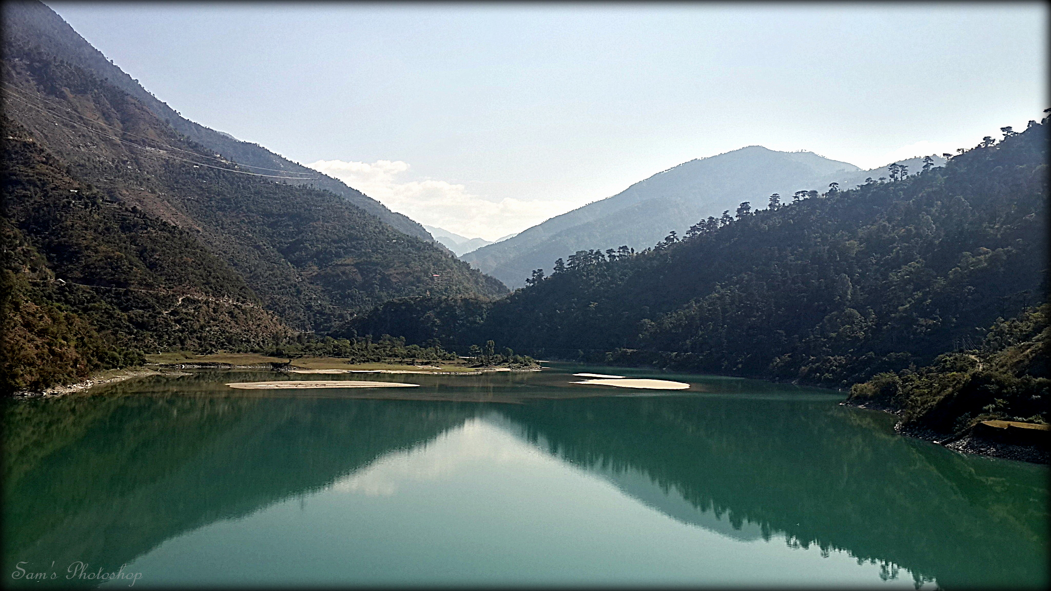 View of Pandoh Lake from National Highway 21